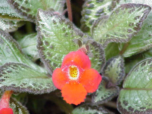 Species: Episcia reptans Family: Gesneriaceae Image No. 1